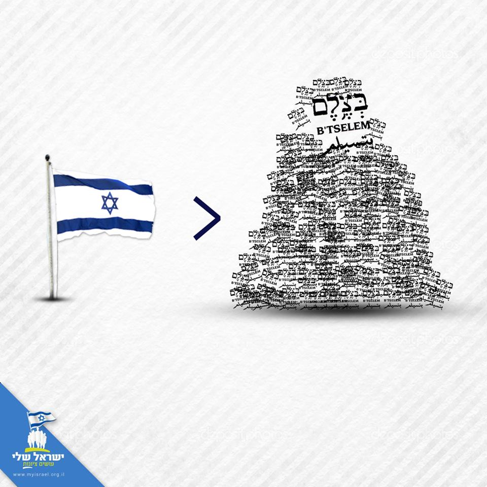 My Israel - a poster against Dutch funding to B'tselem, after B'tselem were outvoted in the contest